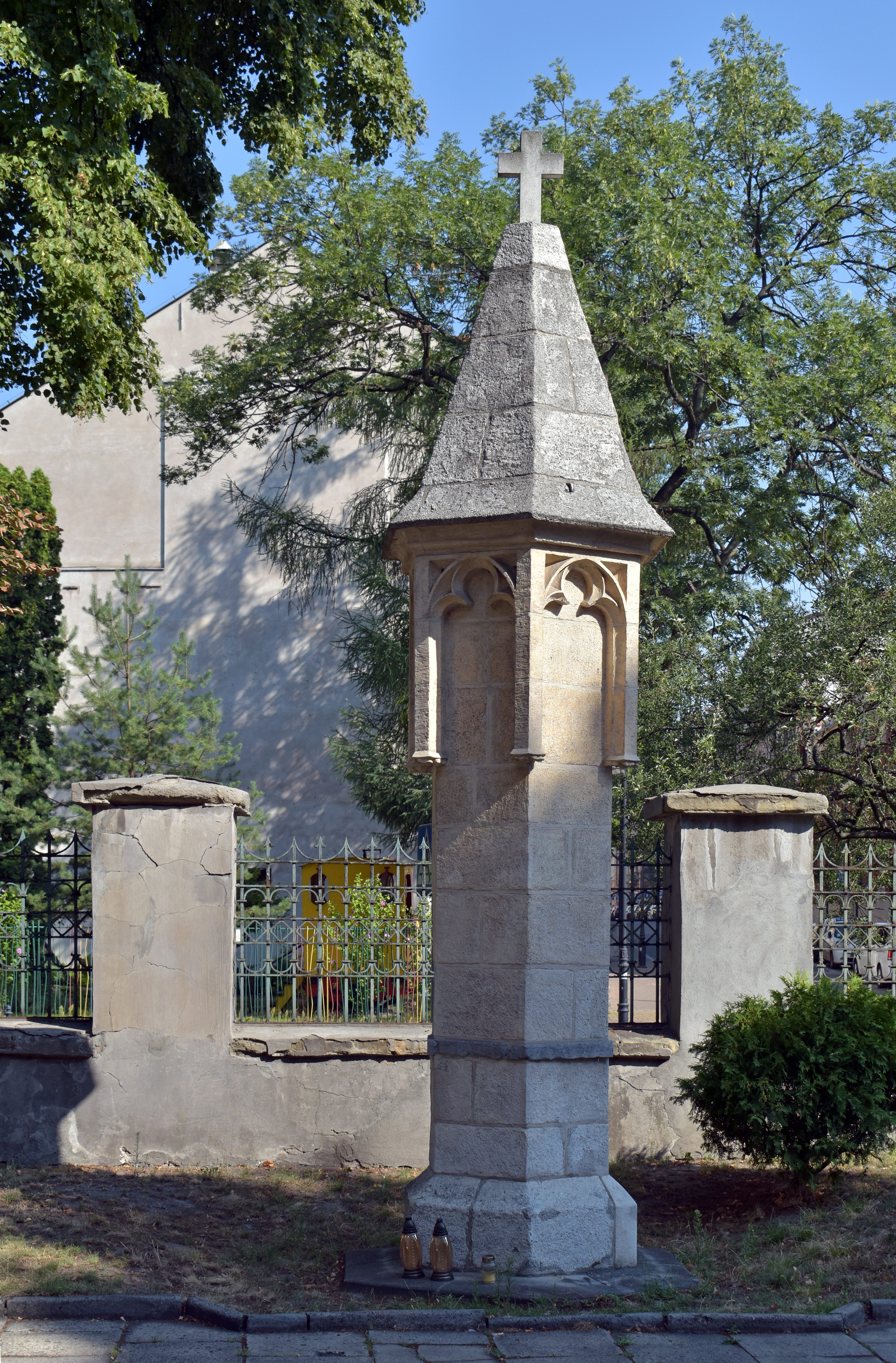 Saint Nicholas Church, Lantern of the Dead, 9 Kopernika street, Kraków, Poland